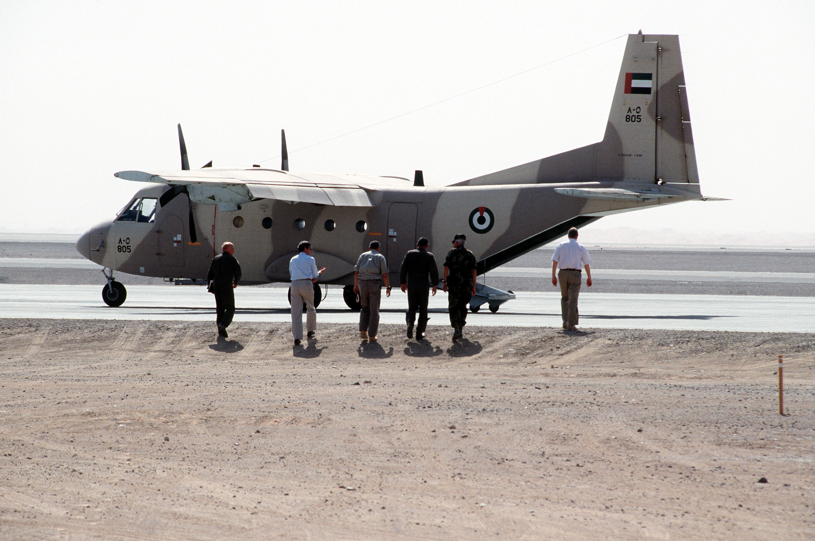 Ambassador Walker, U.S. ambassador to the United Arab Emirates, walks with his entourage to an awaiting C-212 Aviocar aircraft during Operation Desert Storm.